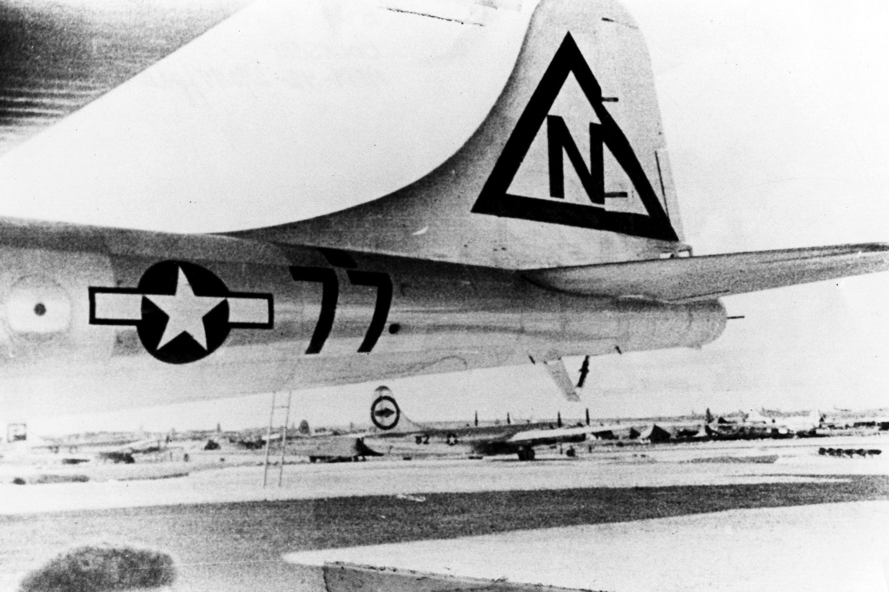 Temporary Triangle N tail marking of the B-29 bomber Bockscar, on August 9, 1945, the day of its atomic bombing mission.